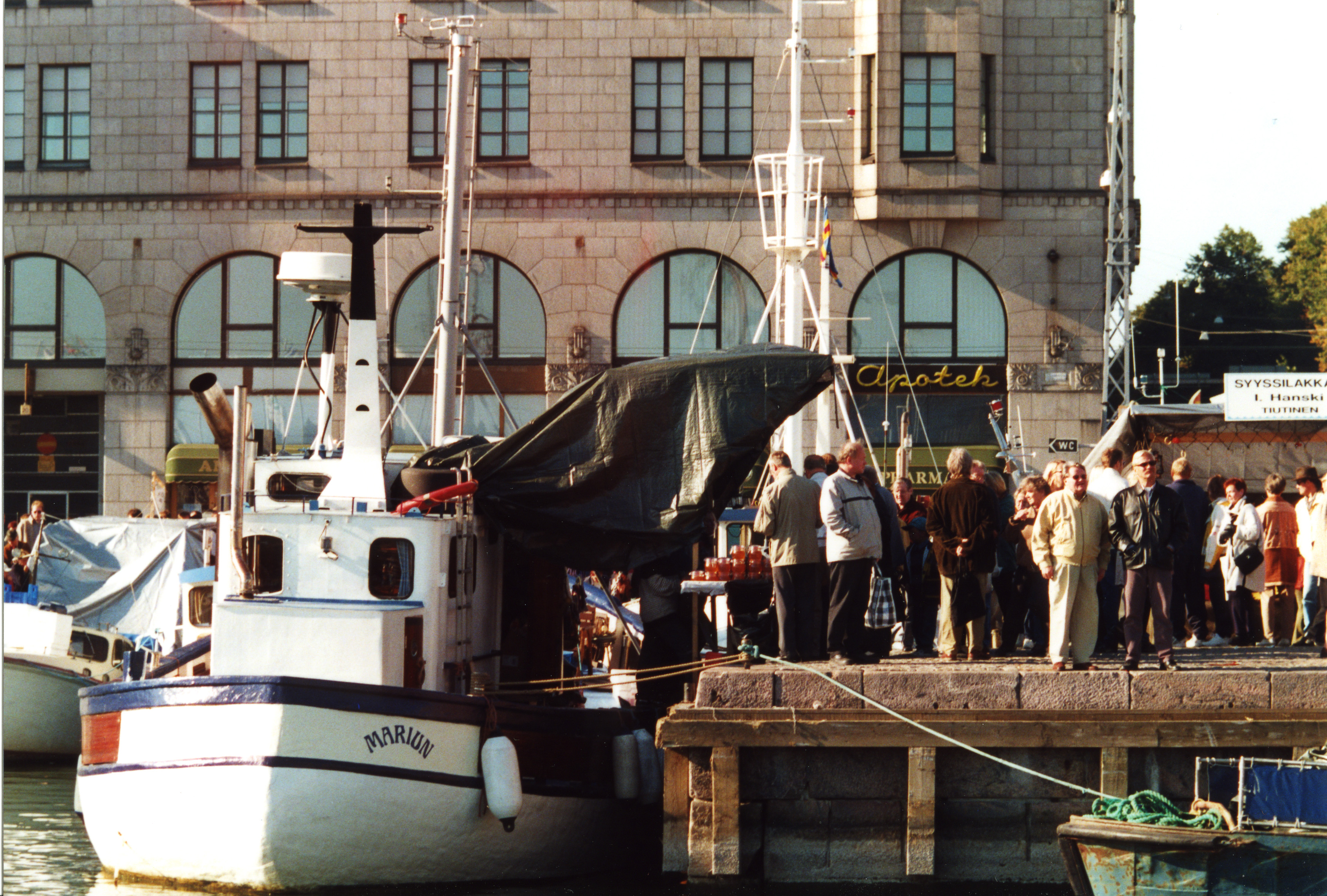 Helsinki Baltic Herring Market October 2001 Photo by Frieda